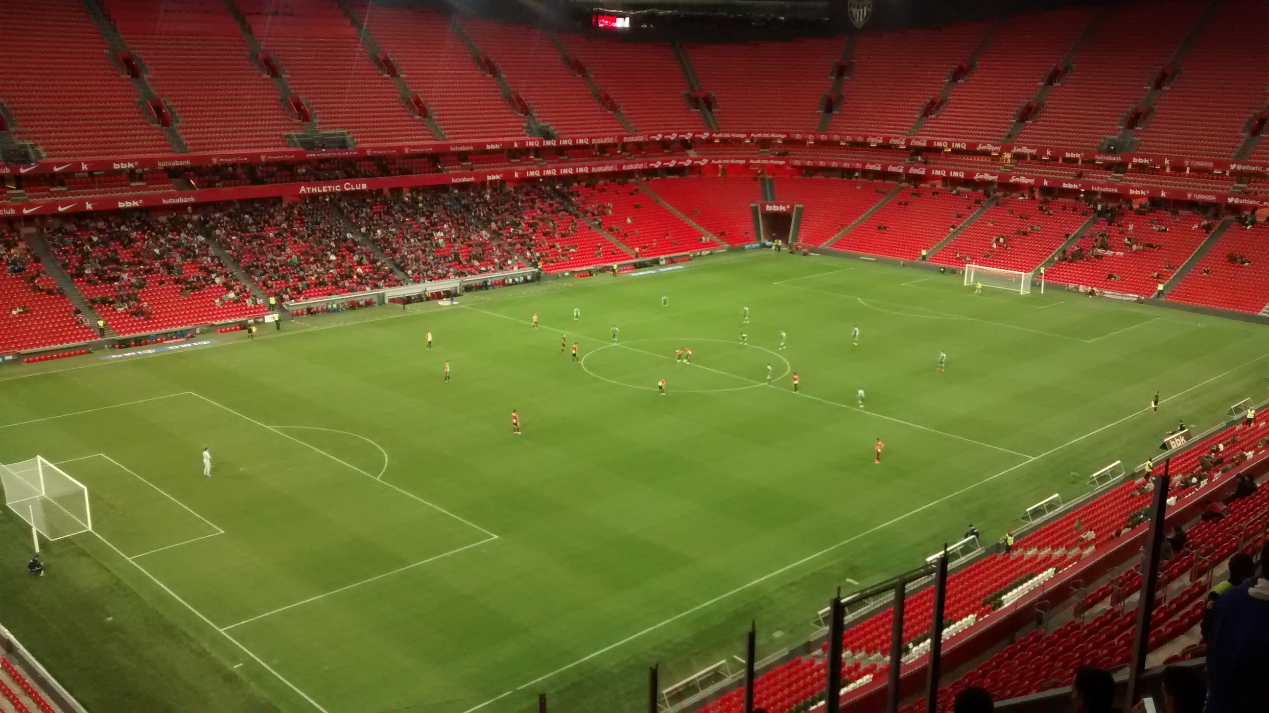 Match Bilbao Athletic 1:2 CD Leganés in San Mamés Stadium, Bilbao, 2nd May 2016